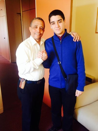 Anys Mezzaour et Yasmina Khadra au Centre Culturel Algérien en mars 2014.